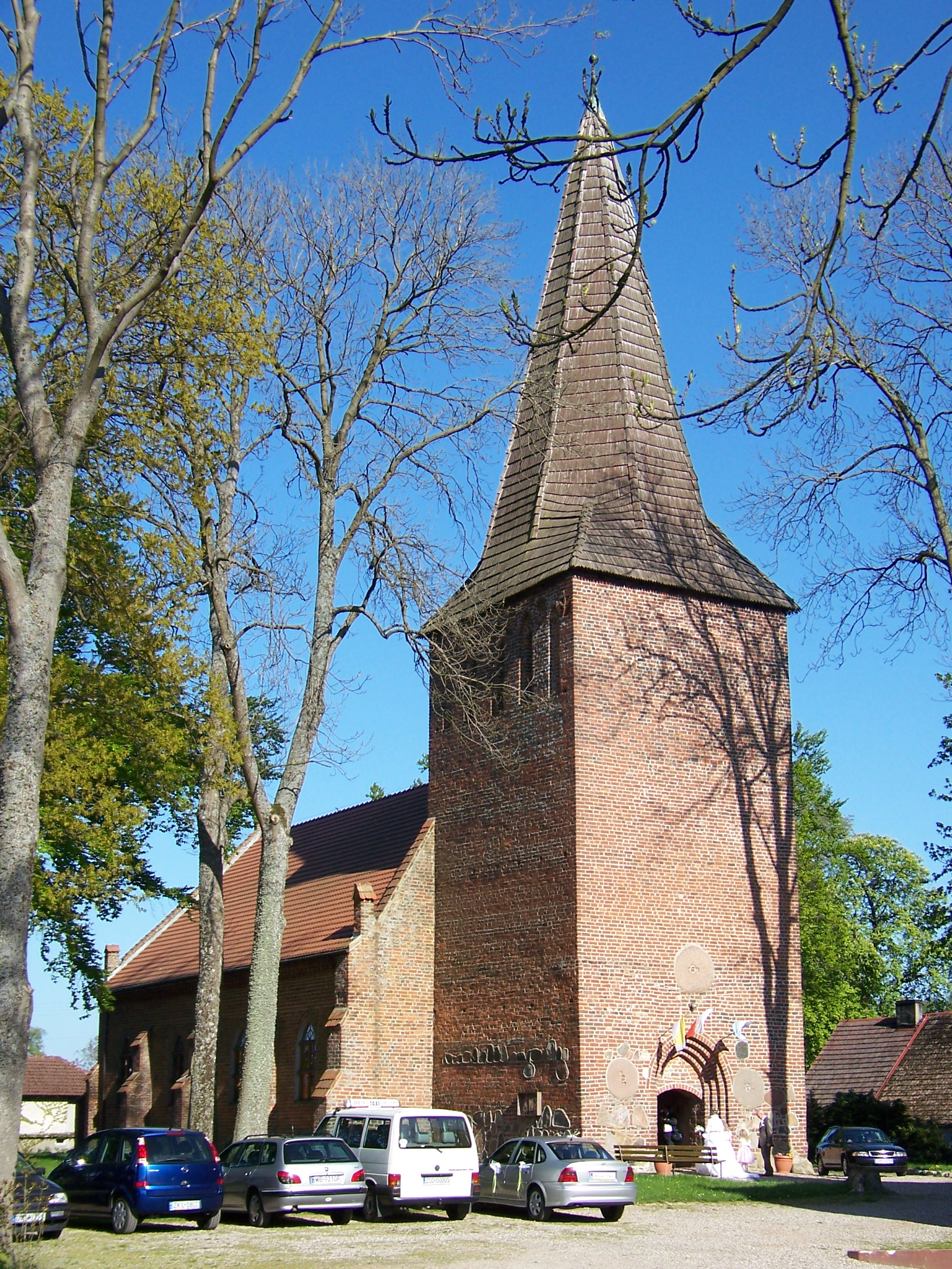 Church in Osieki, West Pomeranian Voivodeship, Poland